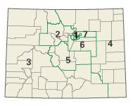 Image adapted from US fed gov't source Category:Congressional districts of Colorado